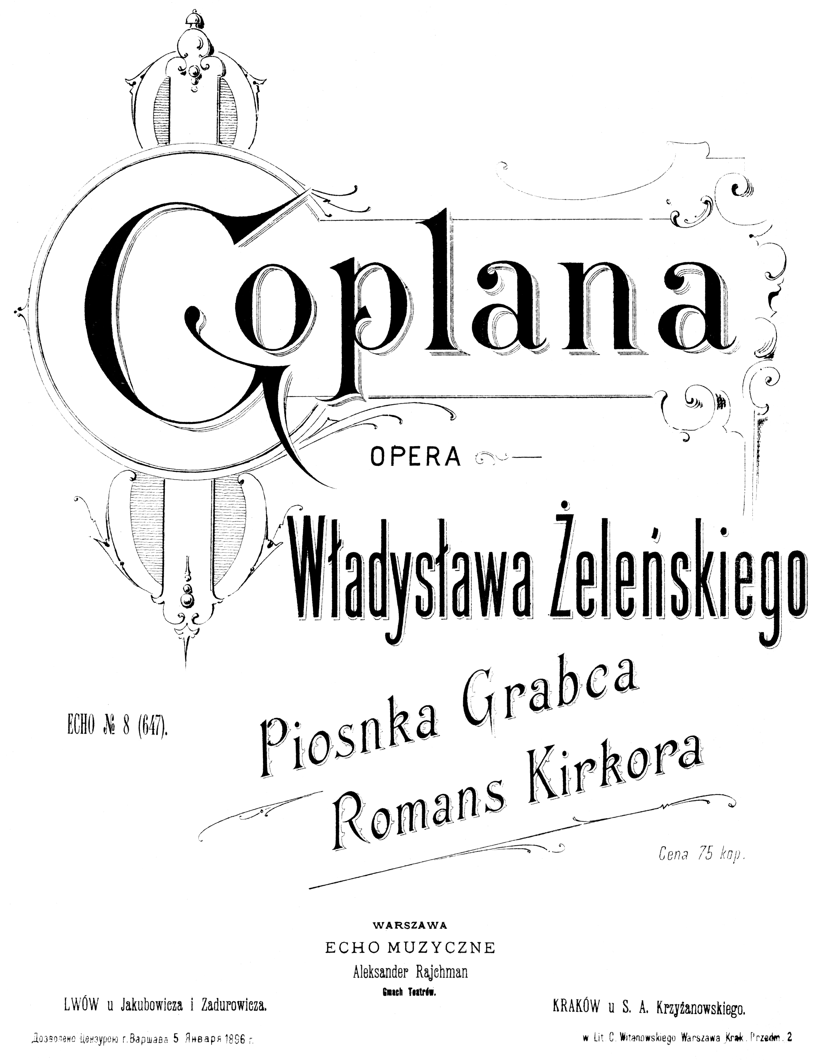 Władysław Żeleński - Goplana - title page of the piano score - 1896